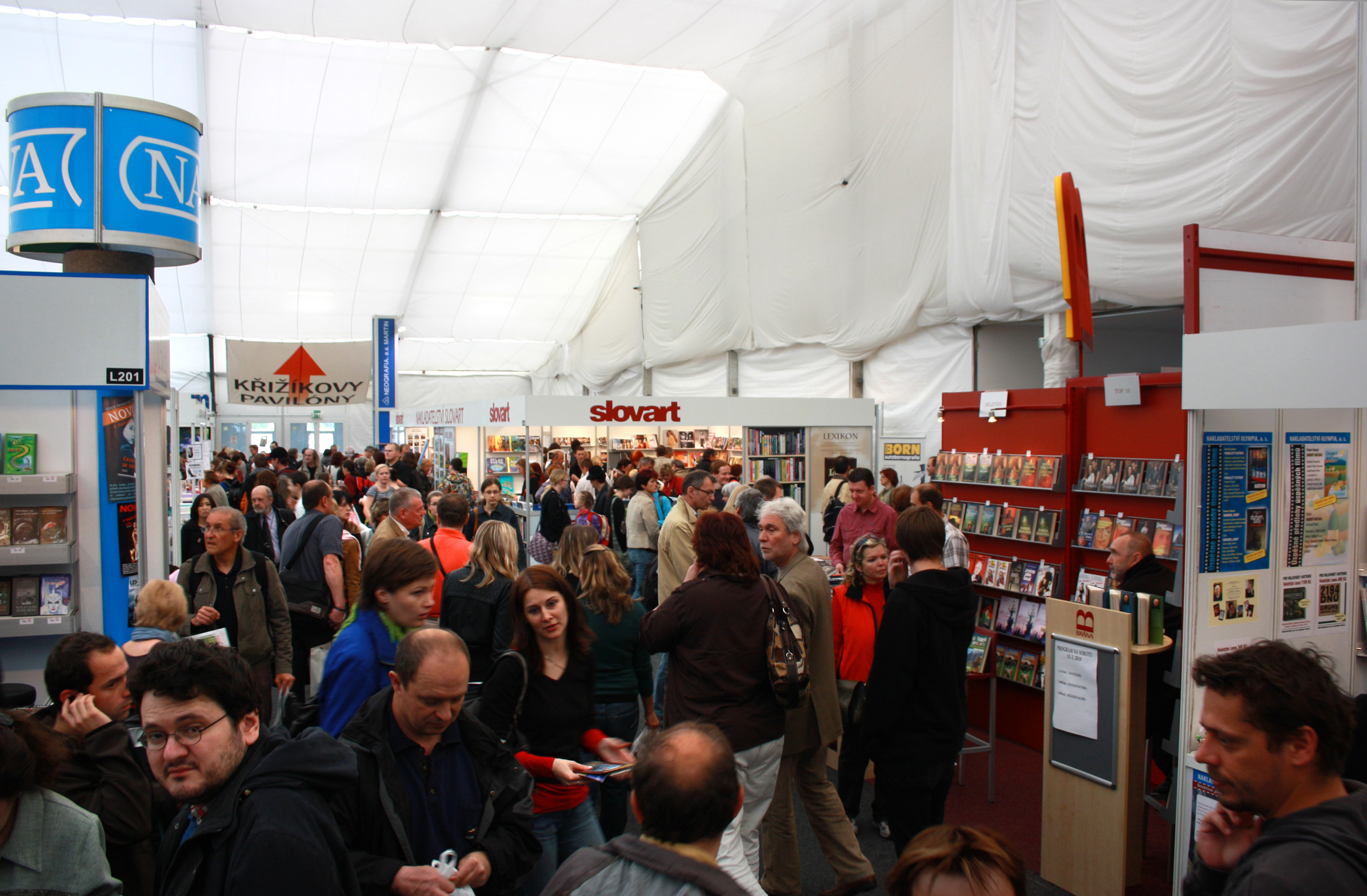 Book World Fair in Prague, Czech Republic